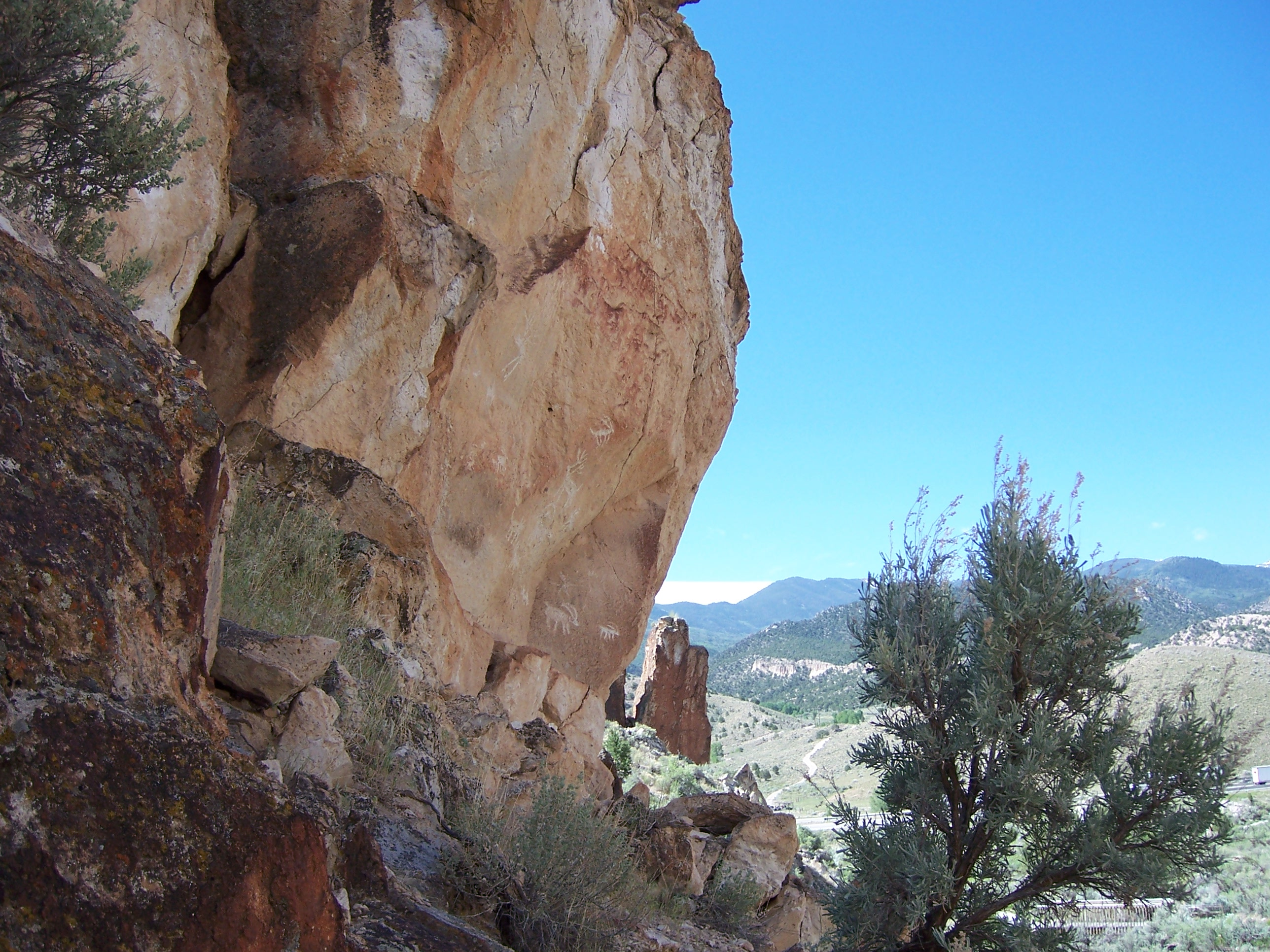 Photo I took at Fremont Indian State Park 05/27/06, just behind the Visitor's Center.